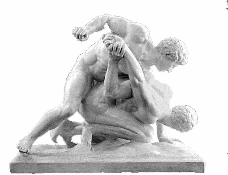 "The Wrestlers," statue from Uffizi Gallery, Florence, Italy. Marble (?) reproduction of 3rd century bronze statue.